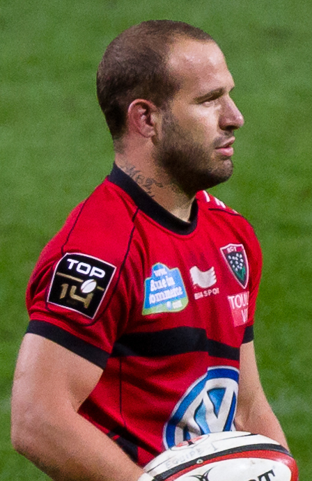 Frédéric Michalak wearing number 10 during the match between Stade toulousain and RC Toulon on September 29th, 2012 (Round 7 of Top14).